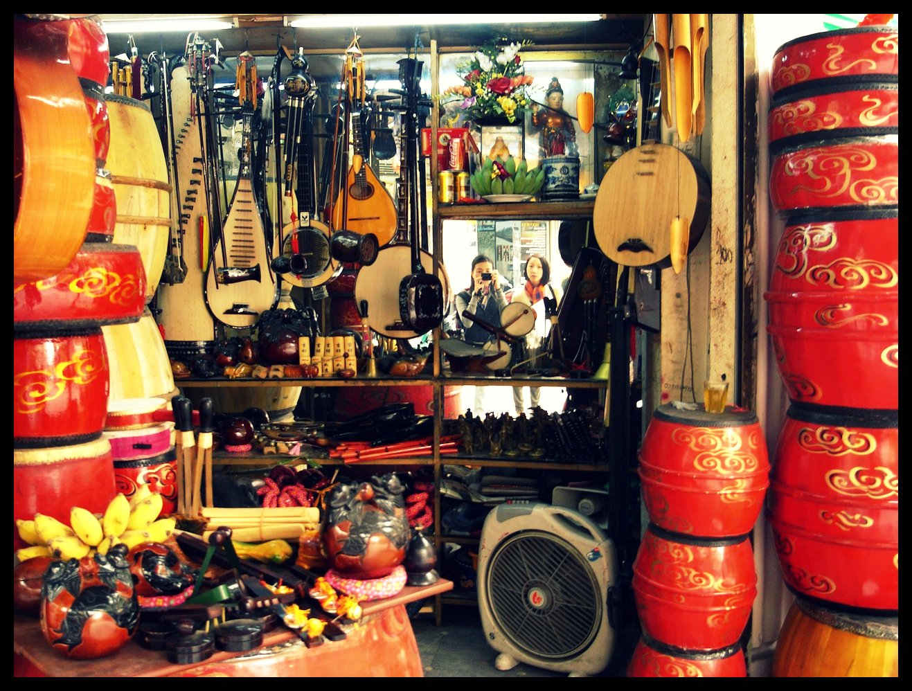 A shop with various Vietnamese musical instruments